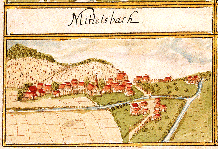 View of Miedelsbach, Schorndorf, from the forest register books created by Andreas Kieser